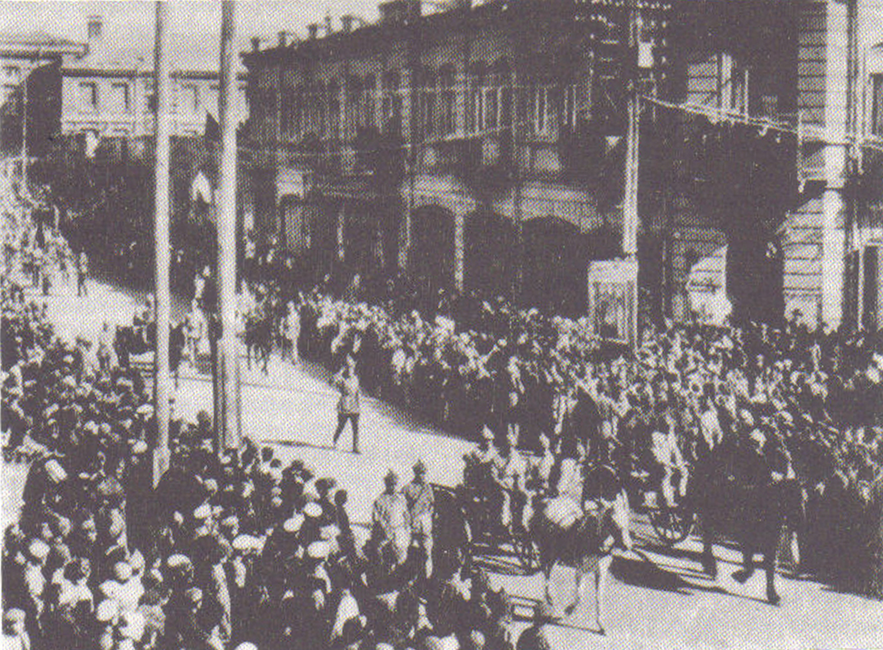 Caption: "Proud Armenian workers welcome the advance of the 11th Red Army into the city of Yerevan